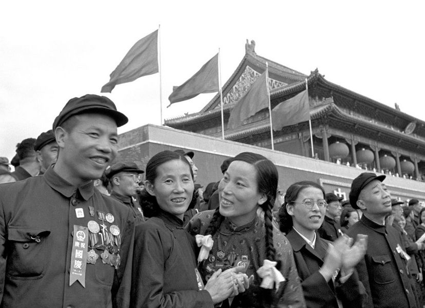 Shen Jilan, the member of the National People's Congress, at Tiananmen in 1954 National Day. 中文（中国大陆）: 1954年10月1日国庆节，在天安门观礼台的全国人大代表，前排左三为申纪兰。